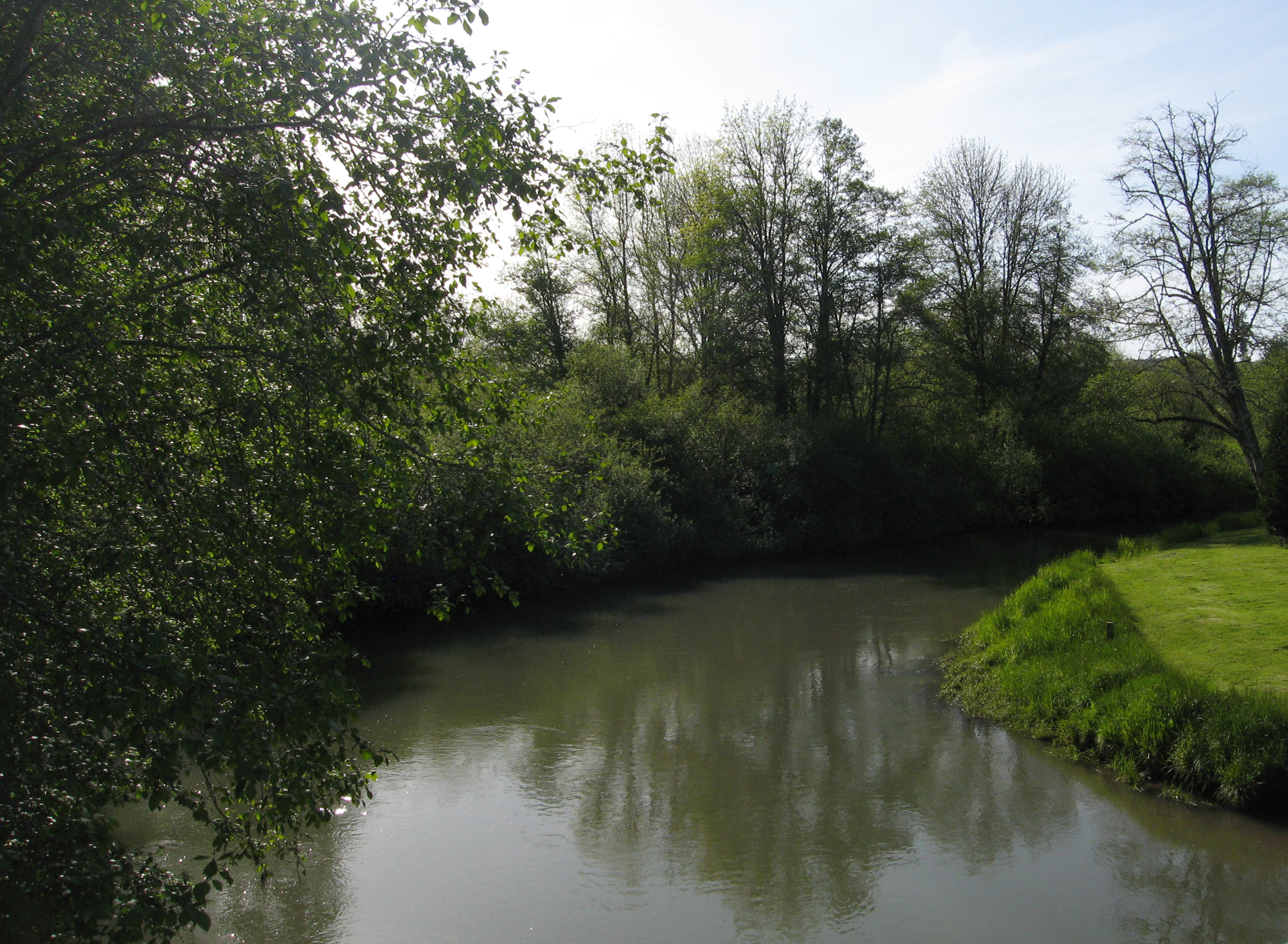 Skookumchuck River at a park in Bucoda, WA.